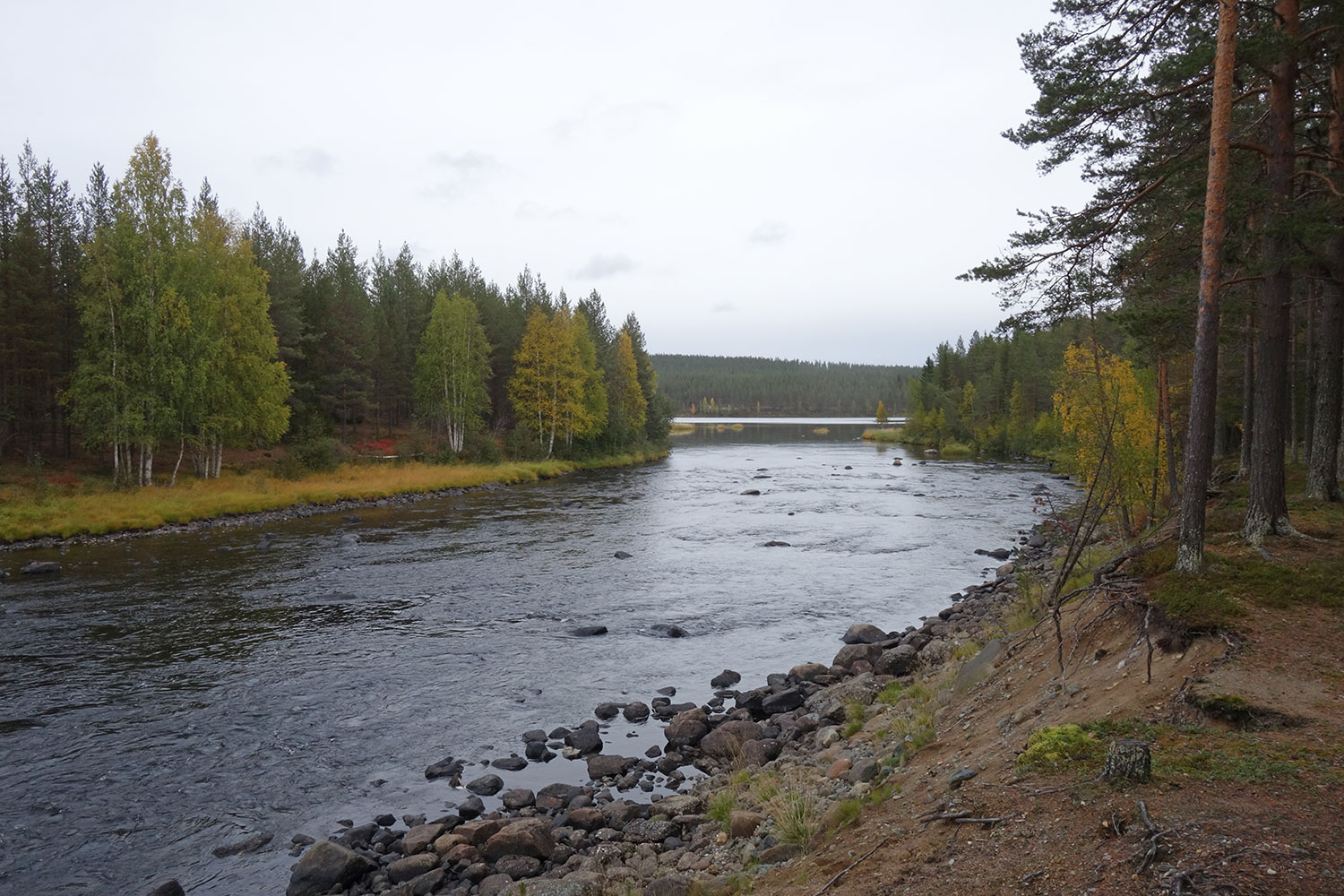 The outlet of Malå River in Skellefte River, northern Sweden.